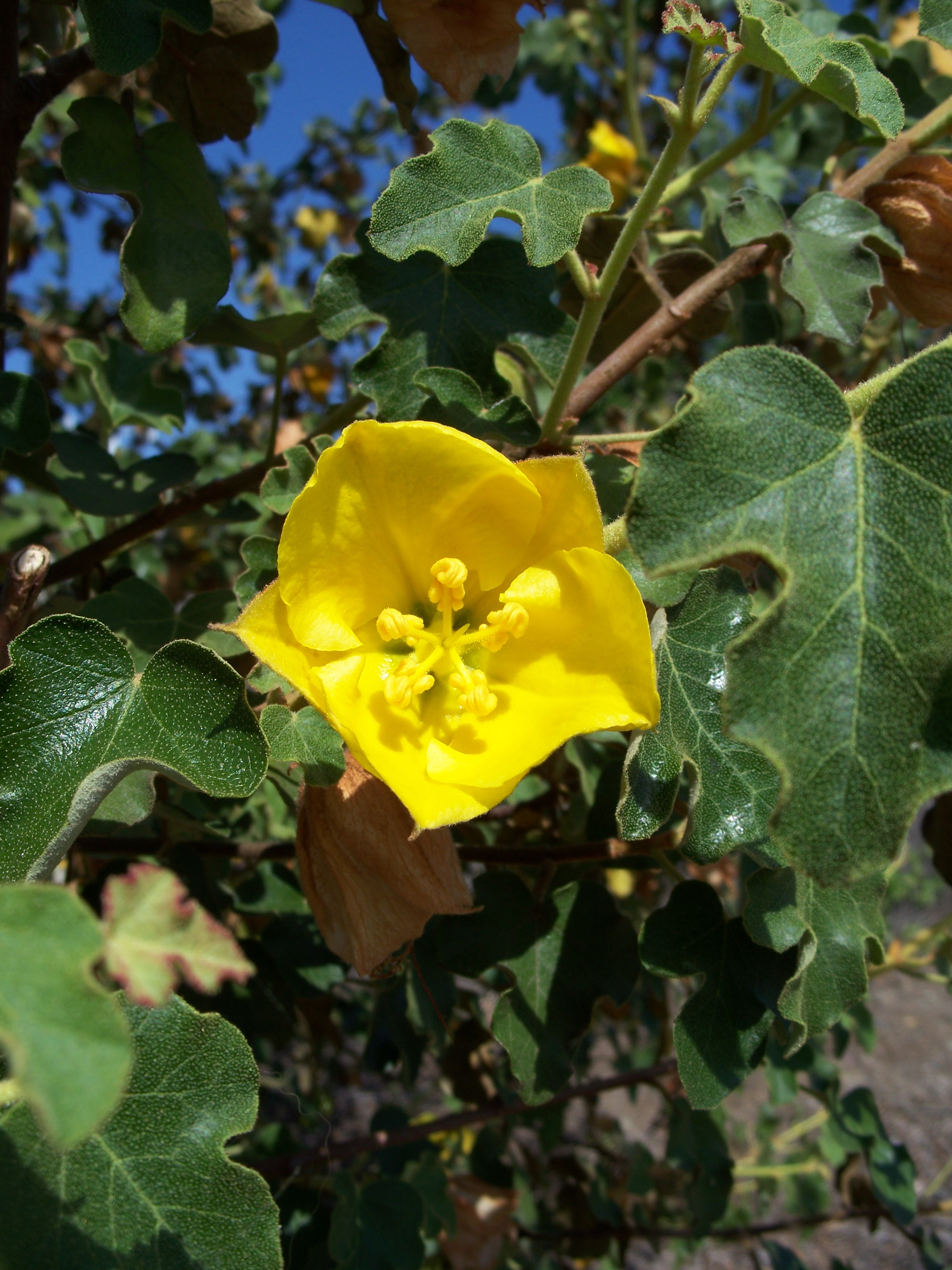 California Flannelbush